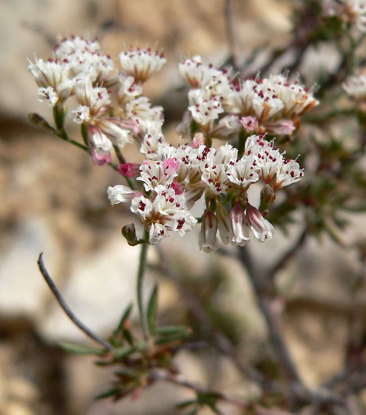 Eriogonum microthecum var. simpsonii on the western side of Mount Wilson, Red Rock Canyon, southern Nevada (elev. about 2000m)